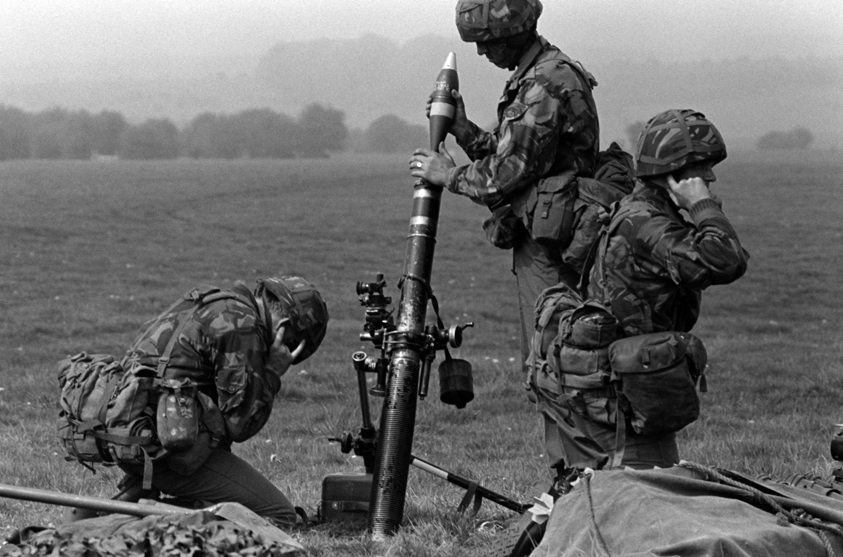 A Belgian commando battery loads an M29 81 mm medium mortar during NATO Exercise ARDENT GROUND '87. Members of the Allied Command Europe Mobile Force from Belgium, the Netherlands, West Germany, Italy, Luxembourg, the United Kingdom and the United States are participating in the live artillery/air exercise being staged on Salisbury Plain Training Area in Wiltshire.